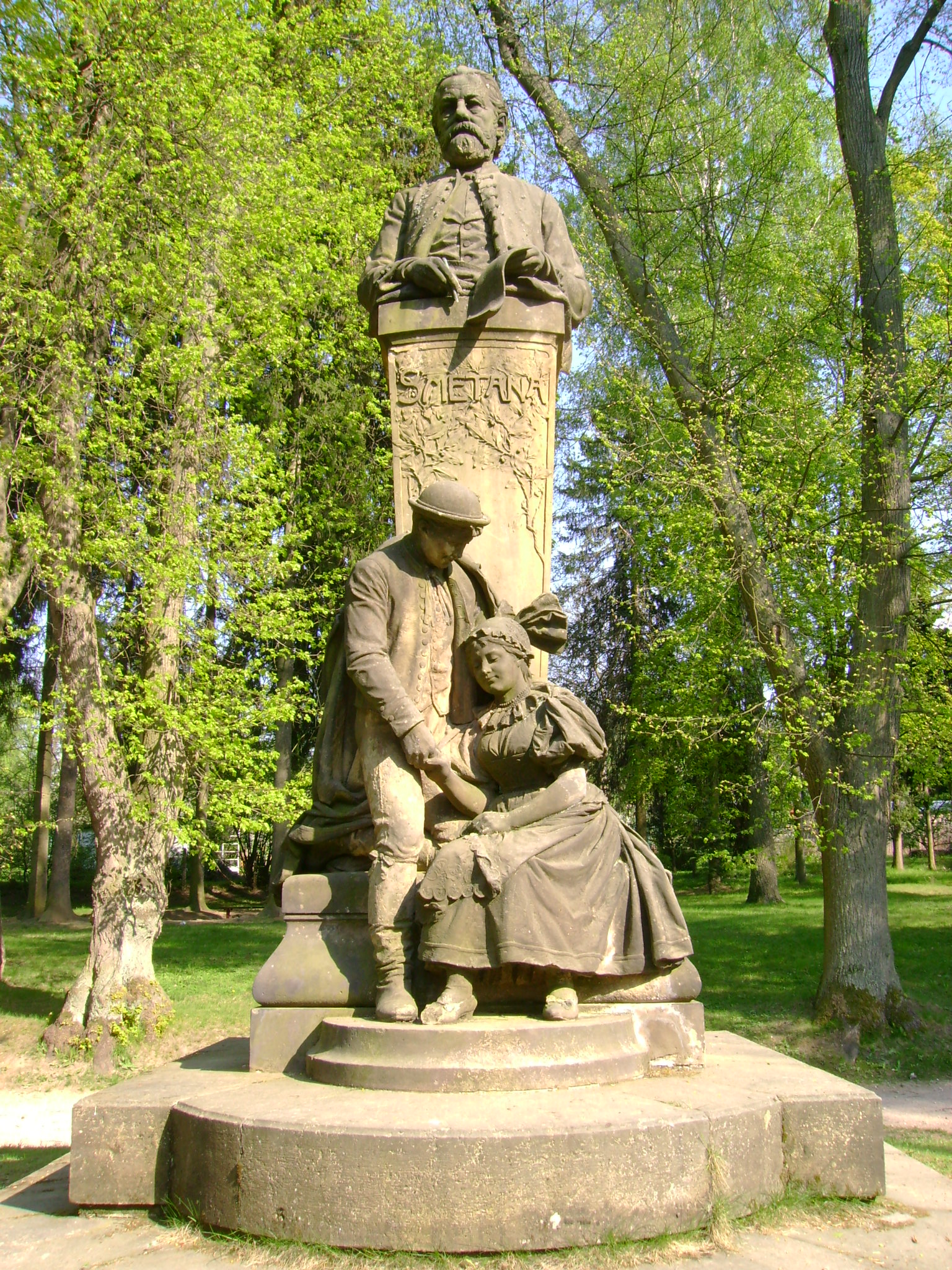 Bedřich Smetana (1824–1884) – a statue in the Smetana Park in Hořice, Jičín District, the Czech Republic. The first-ever sculpture depicting the composer Bedřich Smetana was placed in 1903. Sculptor: Mořic Černil (1859–1933).